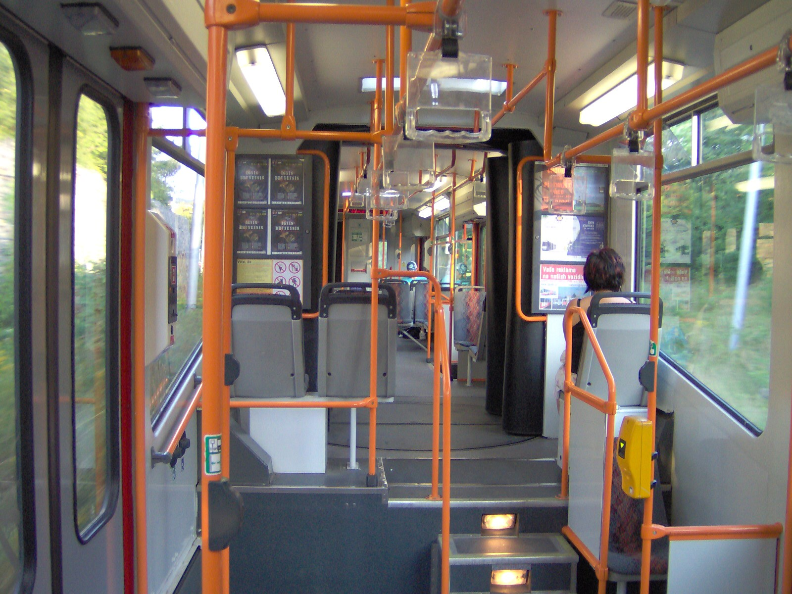 Interior of Tatra KT8D5N tram in Brno, Czech Republic